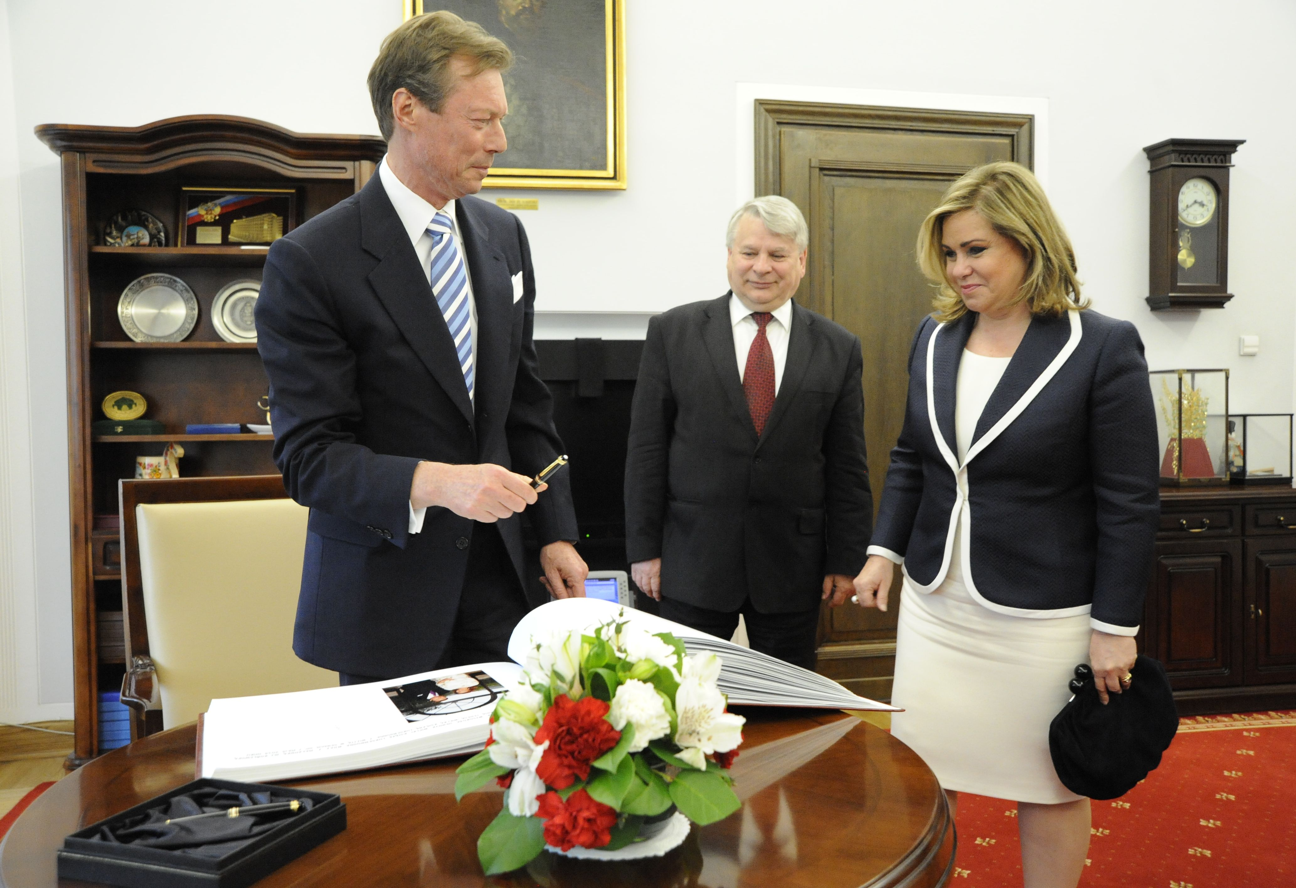 Henri, Grand Duke of Luxembourg, and Maria Teresa, Grand Duchess of Luxembourg, in the Polish Senate